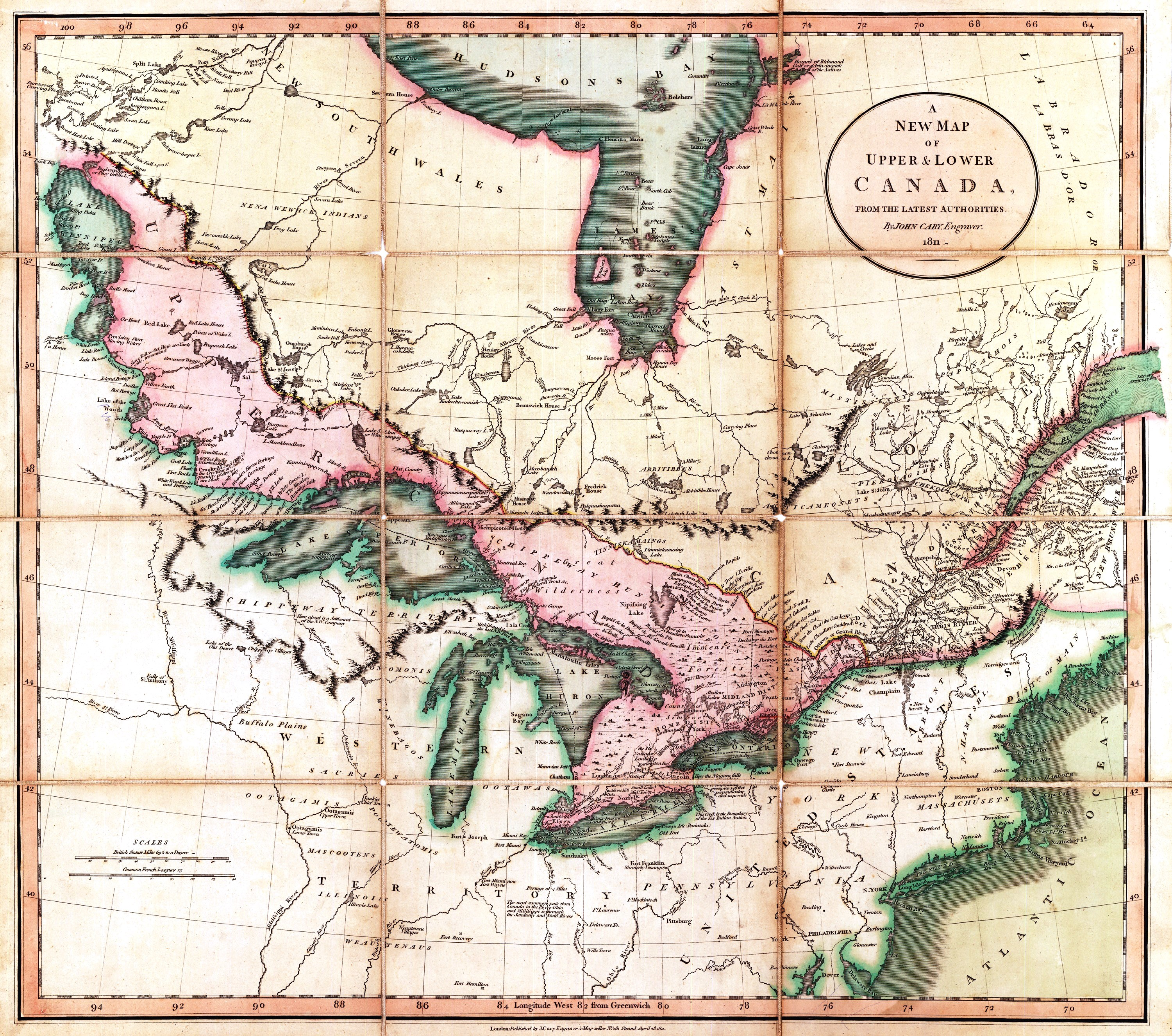 A New Map of Upper & Lower Canada, from the latest authorities